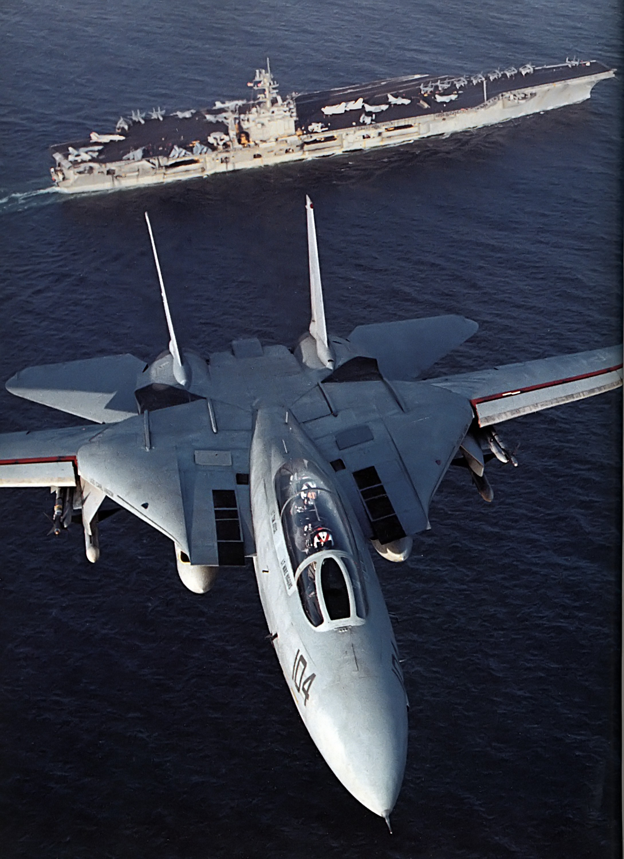 A U.S. Navy Grumman F-14A Tomcat of Fighter Squadron 51 over USS Carl Vinson (CVN-70).